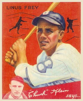 1934 Goudey baseball card of Lonny Frey of the Brooklyn Dodgers #89. PD-not-renewed.